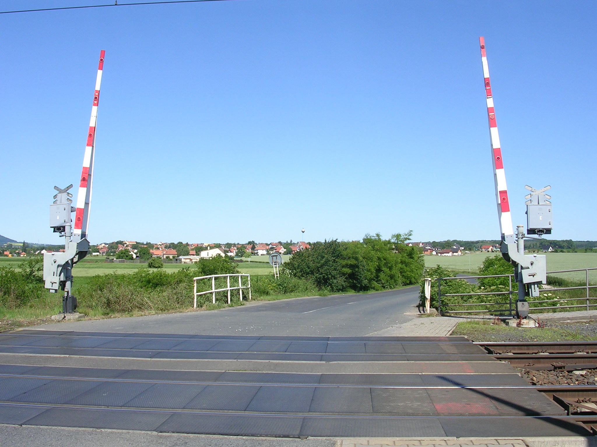 Cítov, Mělník District, the Czech Republic.